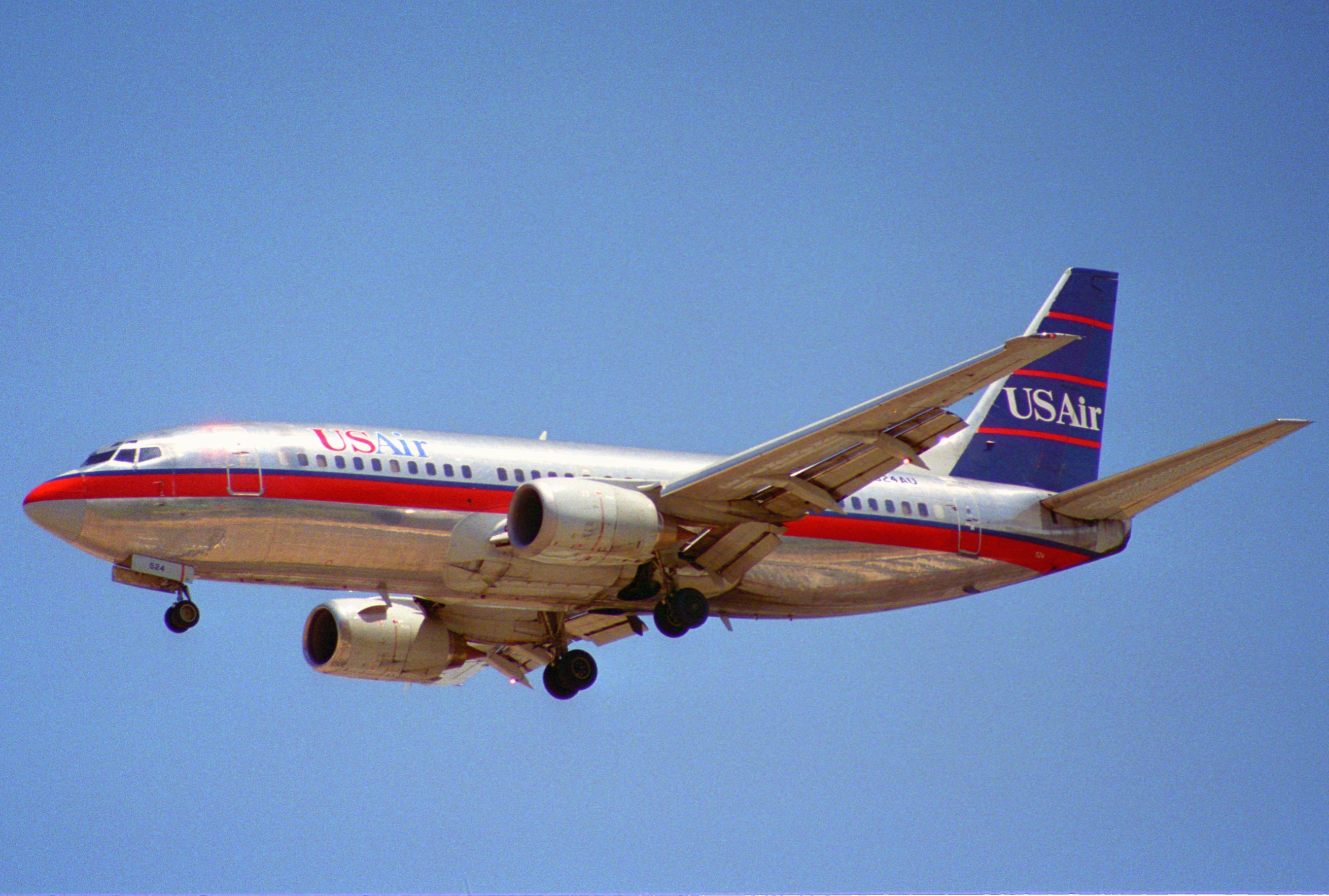 First flight: May 2, 1988... 16/05/1988 USAir N393AU 17/11/1988 USAir N524AU 27/02/1997 US Airways N524AU 23/04/2005 Air Zena Georgian Airlines 4L-TGL 20/05/2007 ArmAvia 4L-TGL 01/06/2009 Georgian Airways 4L-TGL stored 03/2010